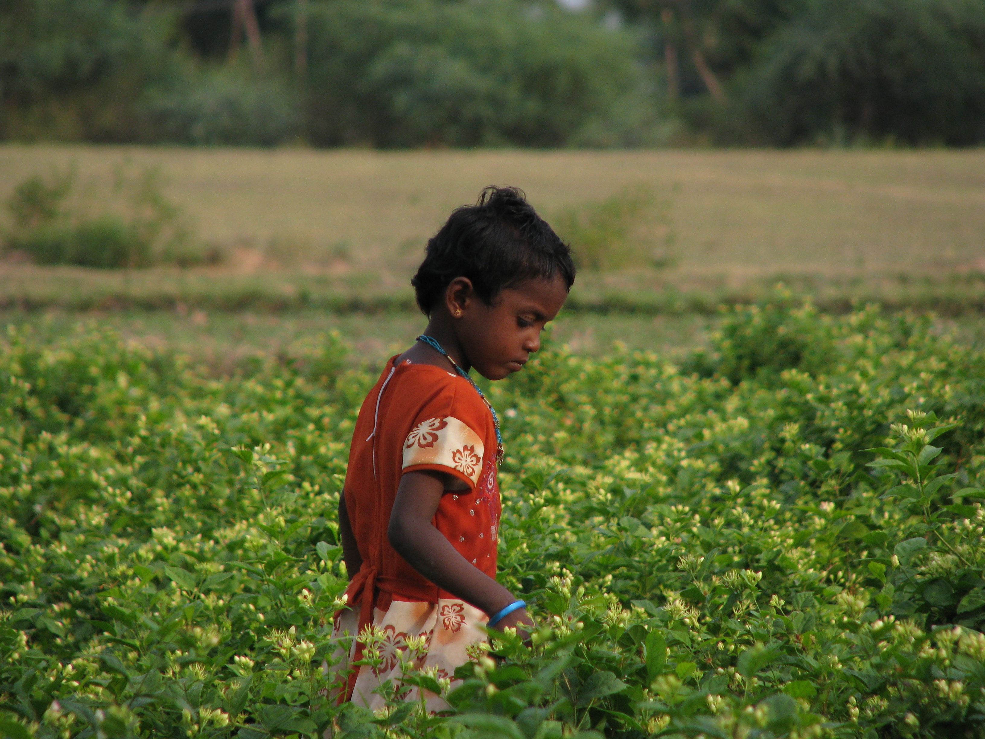 For the record, this is not a sign of child labour. :-) The daughter of an entrepreneur we work with, she is following mom around her field after school, playing and picking the tiny jasmine flowers at random. I loved the colour contrast.